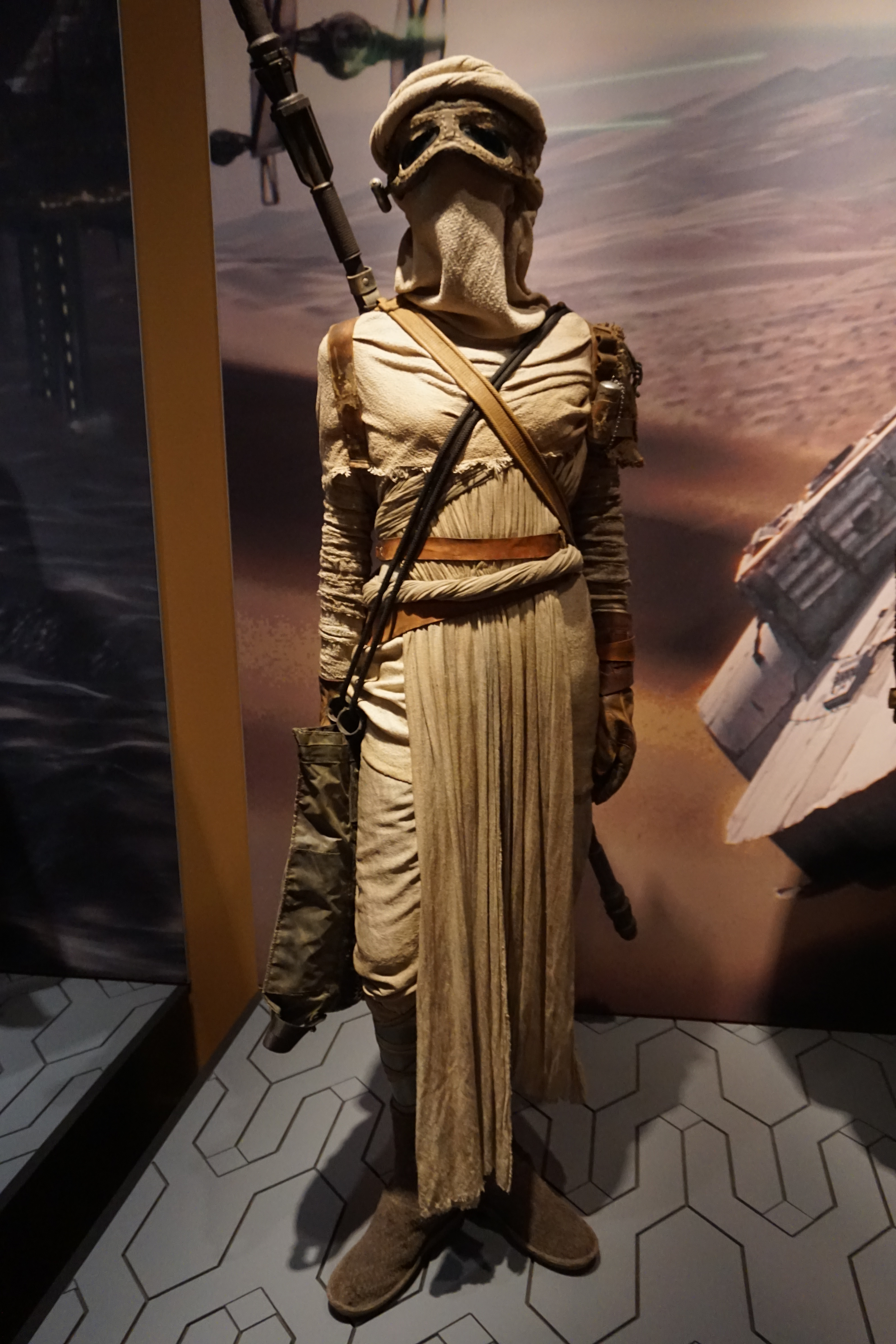 Rey's costume from Star Wars: Episode VII – The Force Awakens on display at the Star Wars and the Power of Costume traveling exhibit at the Detroit Institute of Arts in Detroit, Michigan (United States).